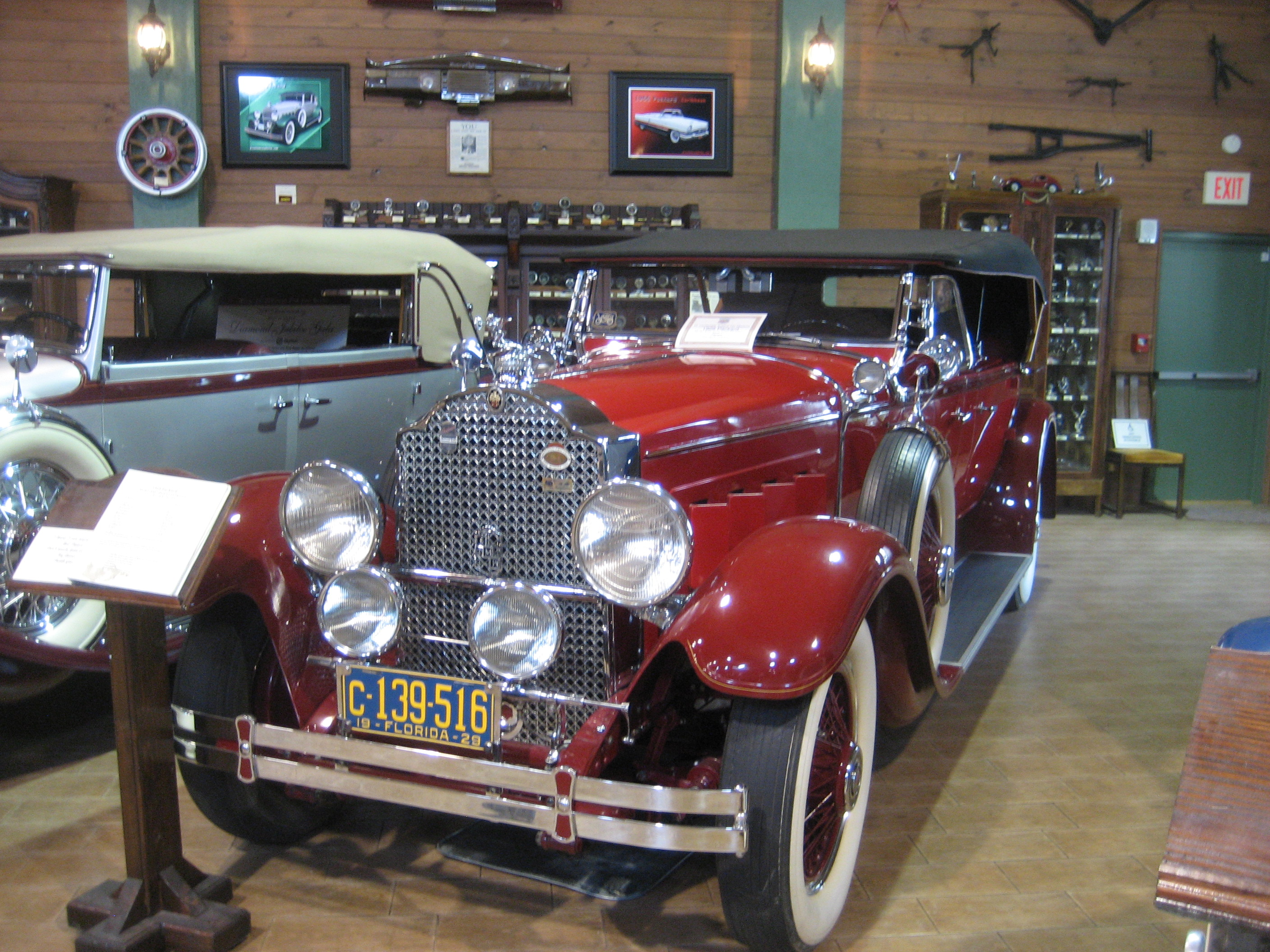 1929 Packard 645 Dual Cowl Phaeton. On display at Fort Lauderdale Antique Car Museum.